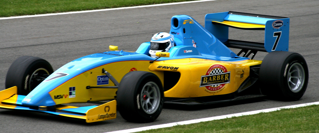 Henry Surtees driving at the Brands Hatch round of the 2009 FIA Formula Two Championship